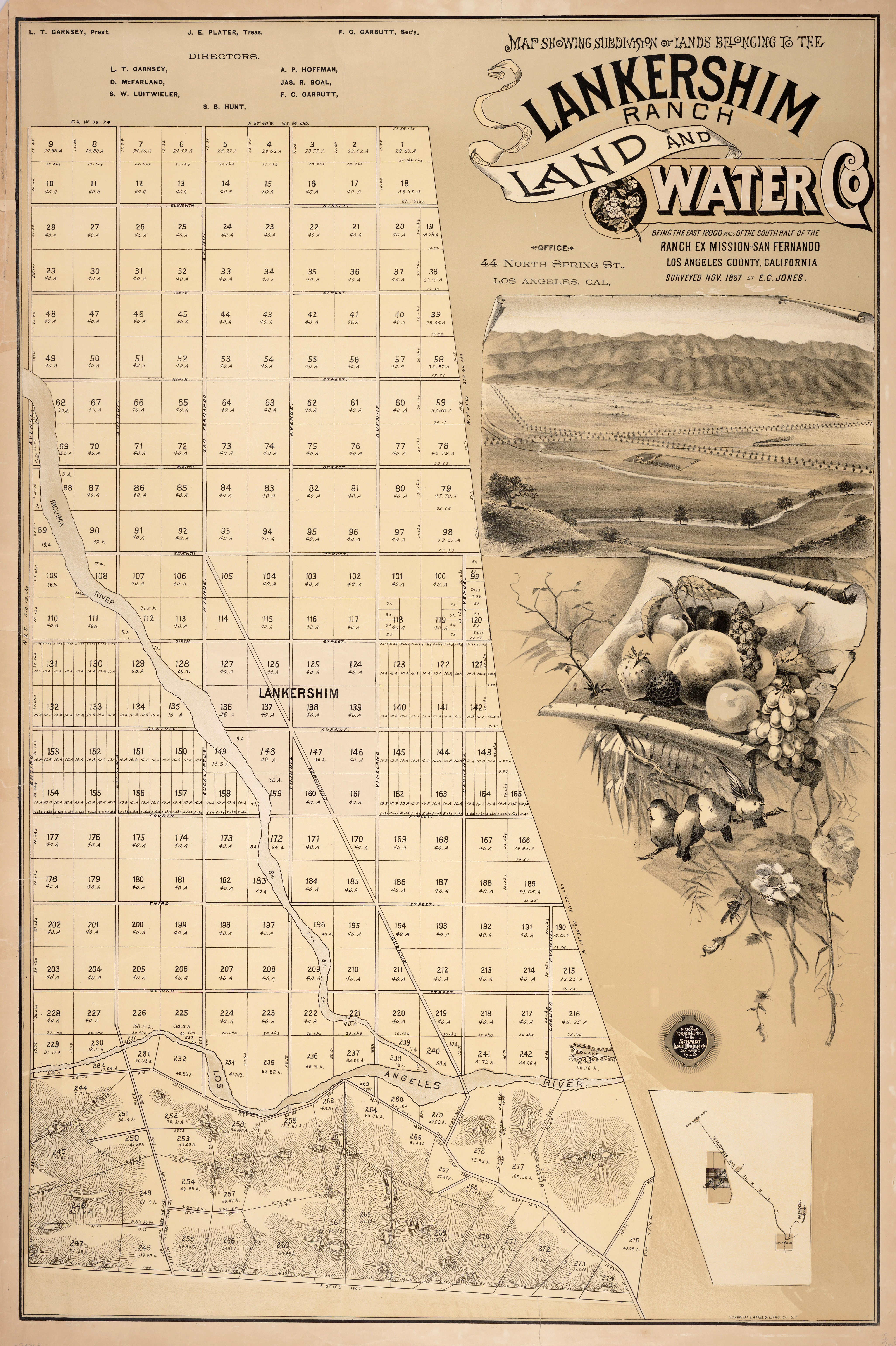 Map showing subdivision of lands belonging to the Lankershim Ranch Land and Water Co. : being the east 1200 acres of the south half of Ranch Ex Mission of San Fernando, Los Angeles County, California